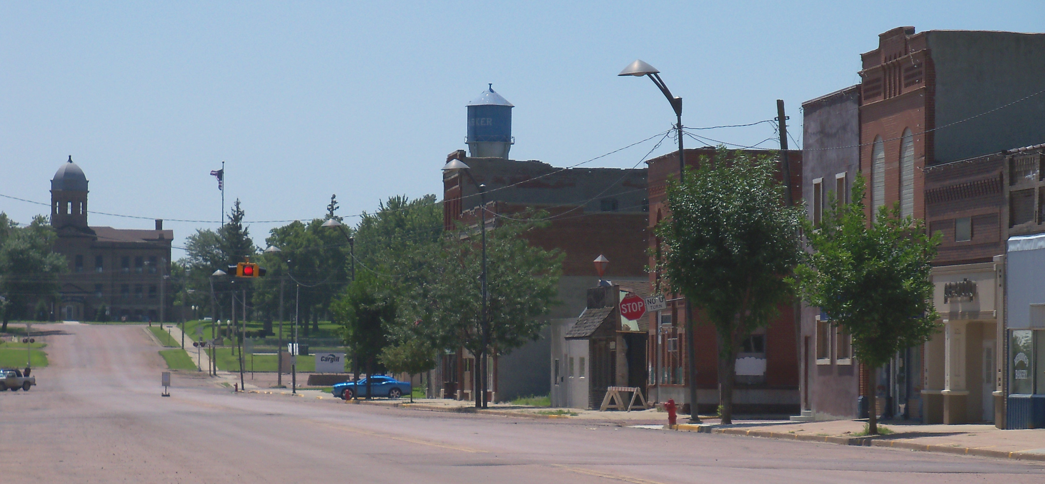 Downtown Parker, South Dakota, USA.